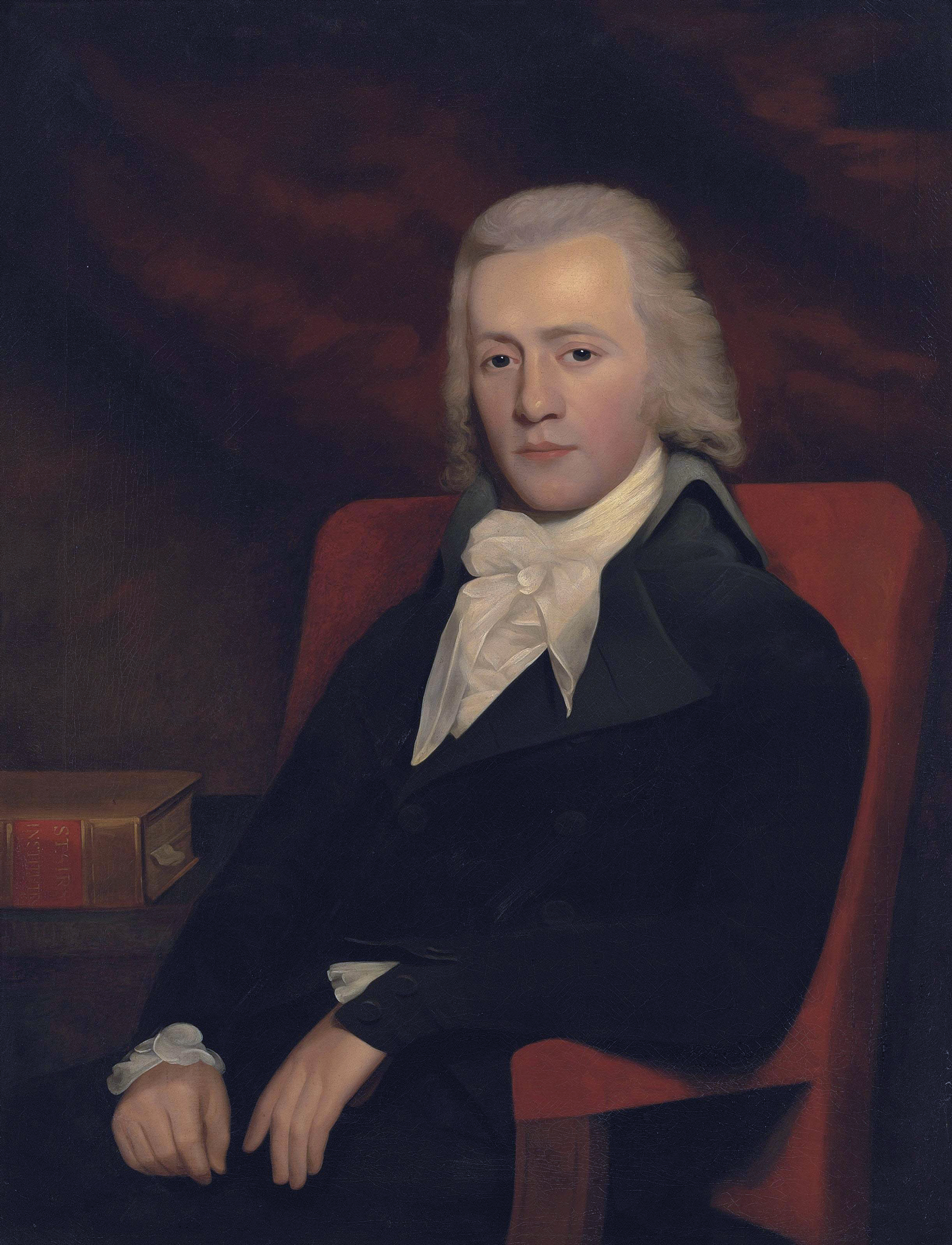 William Erskine, Lord Kinnedder (1756-1822) oil on canvas 91.4 x 70.8 cm inscribed c.l.: STAIRS INSTITUTES on the book